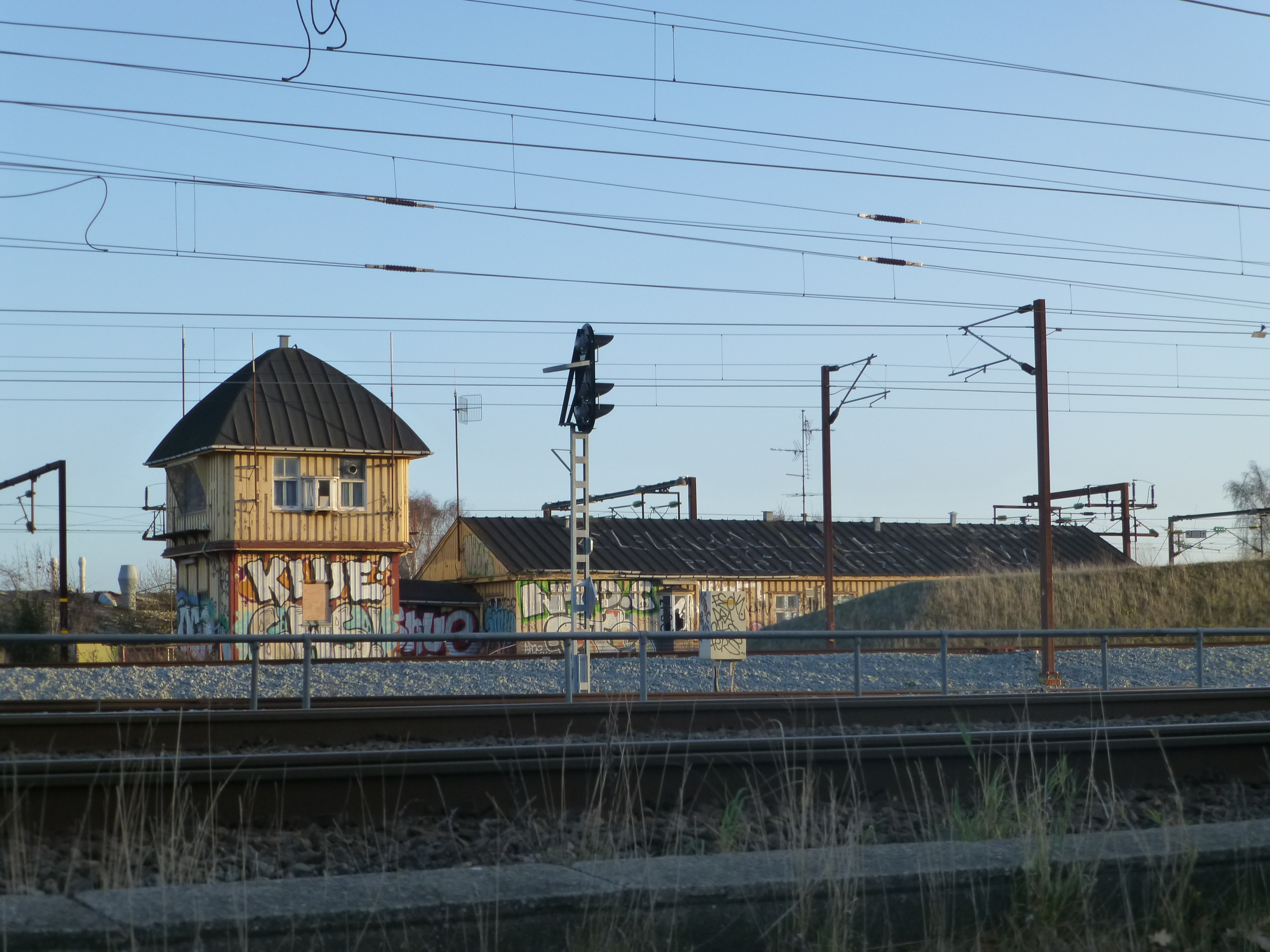 A signal box in Copenhagen, popular known as Det gule palæ (the yellow mansion). The signal box was used as a location for the Danish movie Olsen-banden på sporet in 1975.